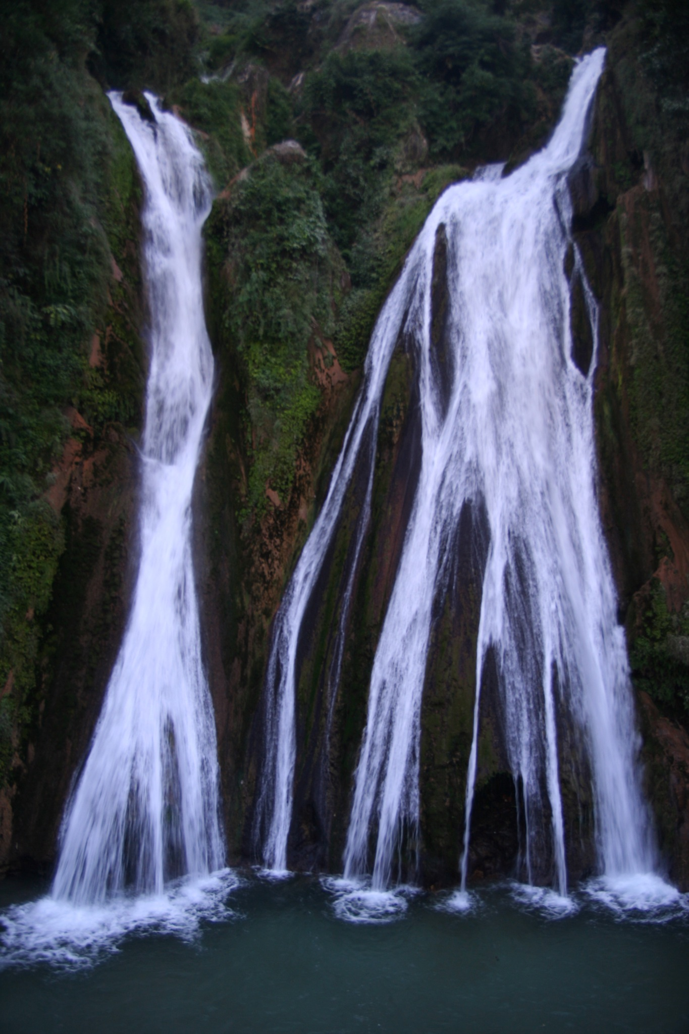 Kempty Falls near Mussoorie